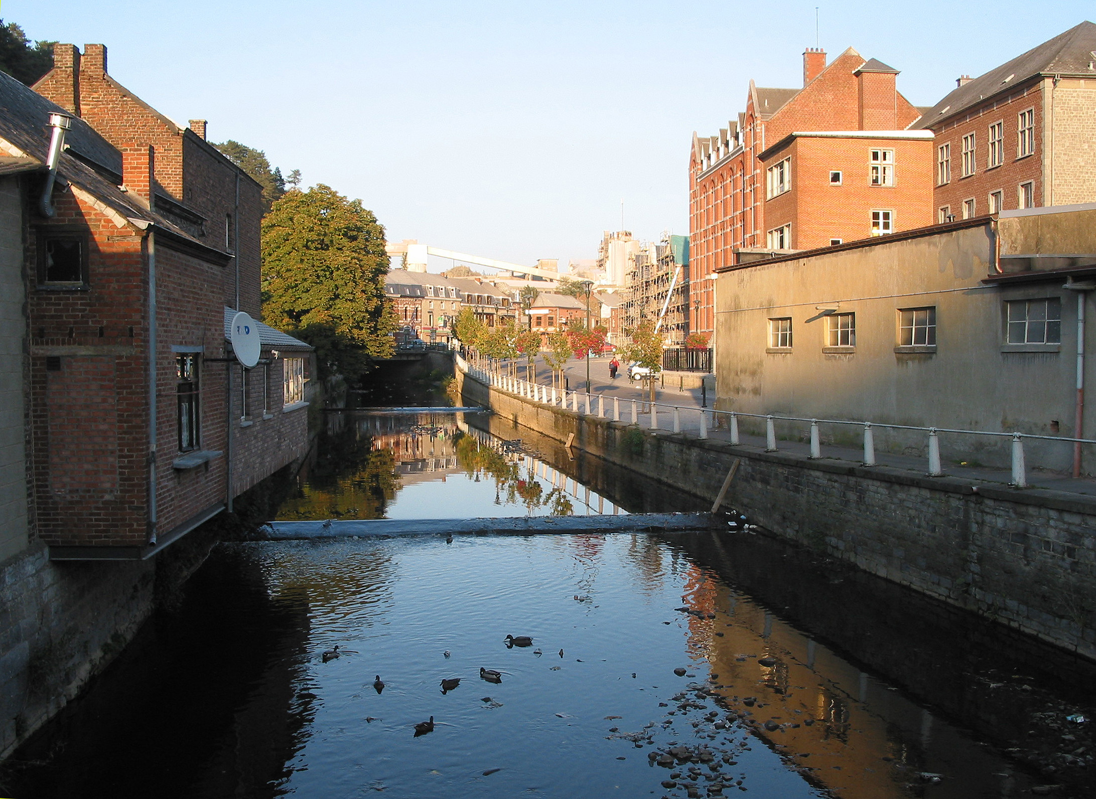 Jemelle (Belgium), the locality crossed by the Wamme river.